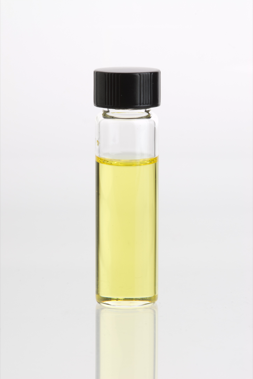 Glass vial containing Mandarin Essential Oil